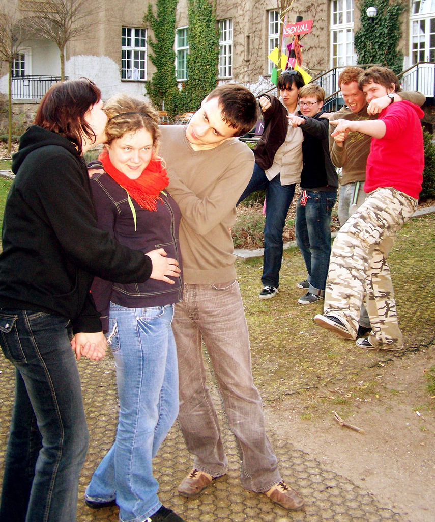 Homophobia, Biphobia, Discrimination